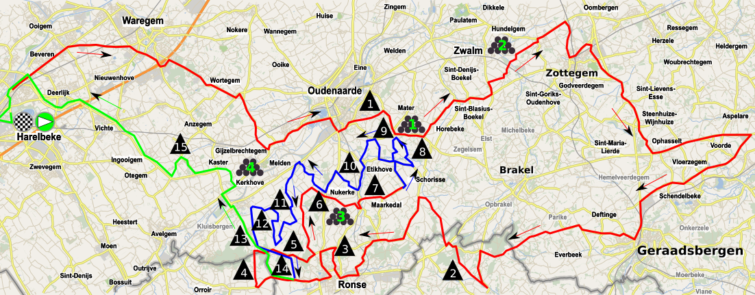 Circuit of E3 Harelbeke 2018.